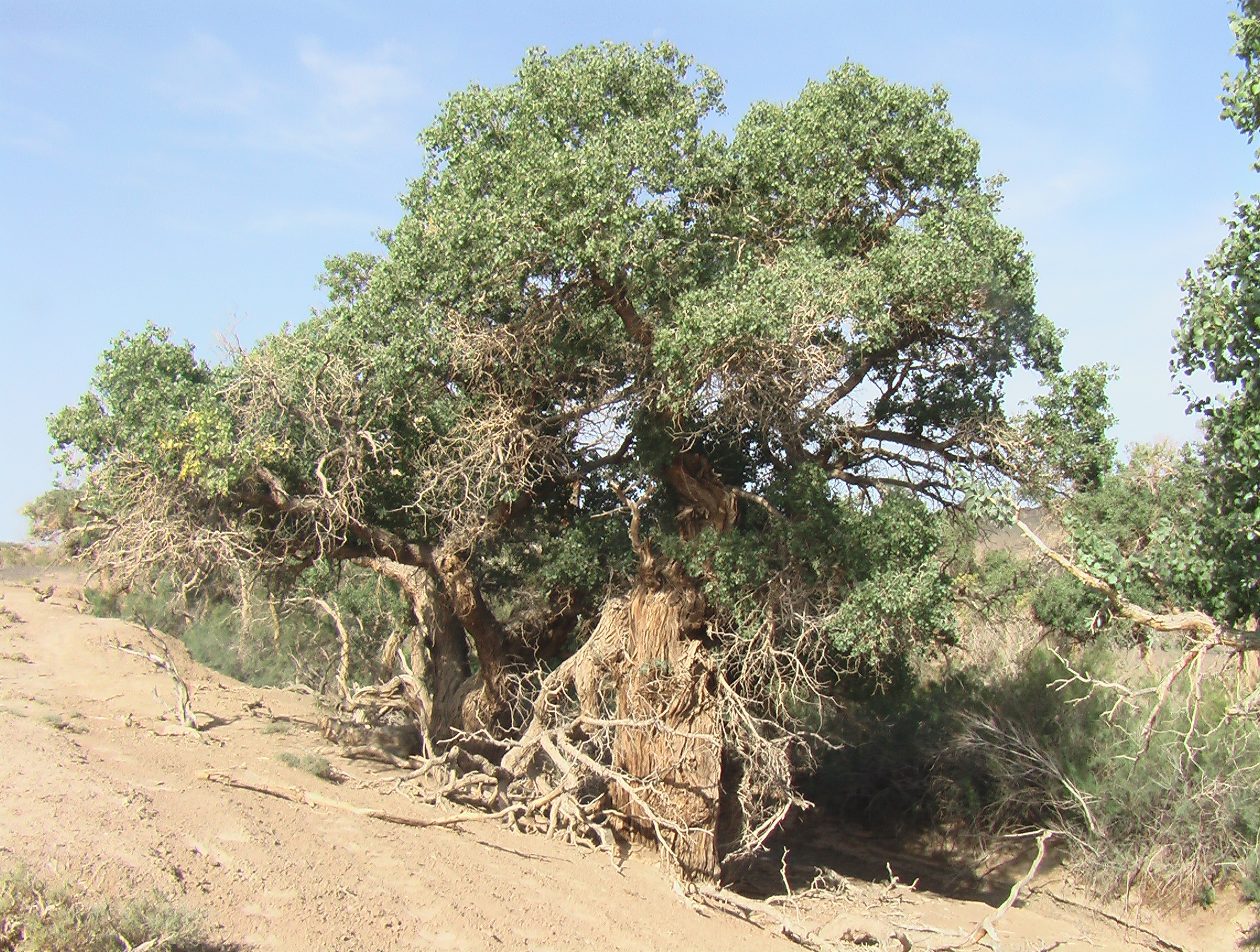 Populus euphratica (syn. P. diversifolia), Ekhiin-Gol oazis, Shinejinst sum, Bayankhongor province, Mongolia, Gobi desert